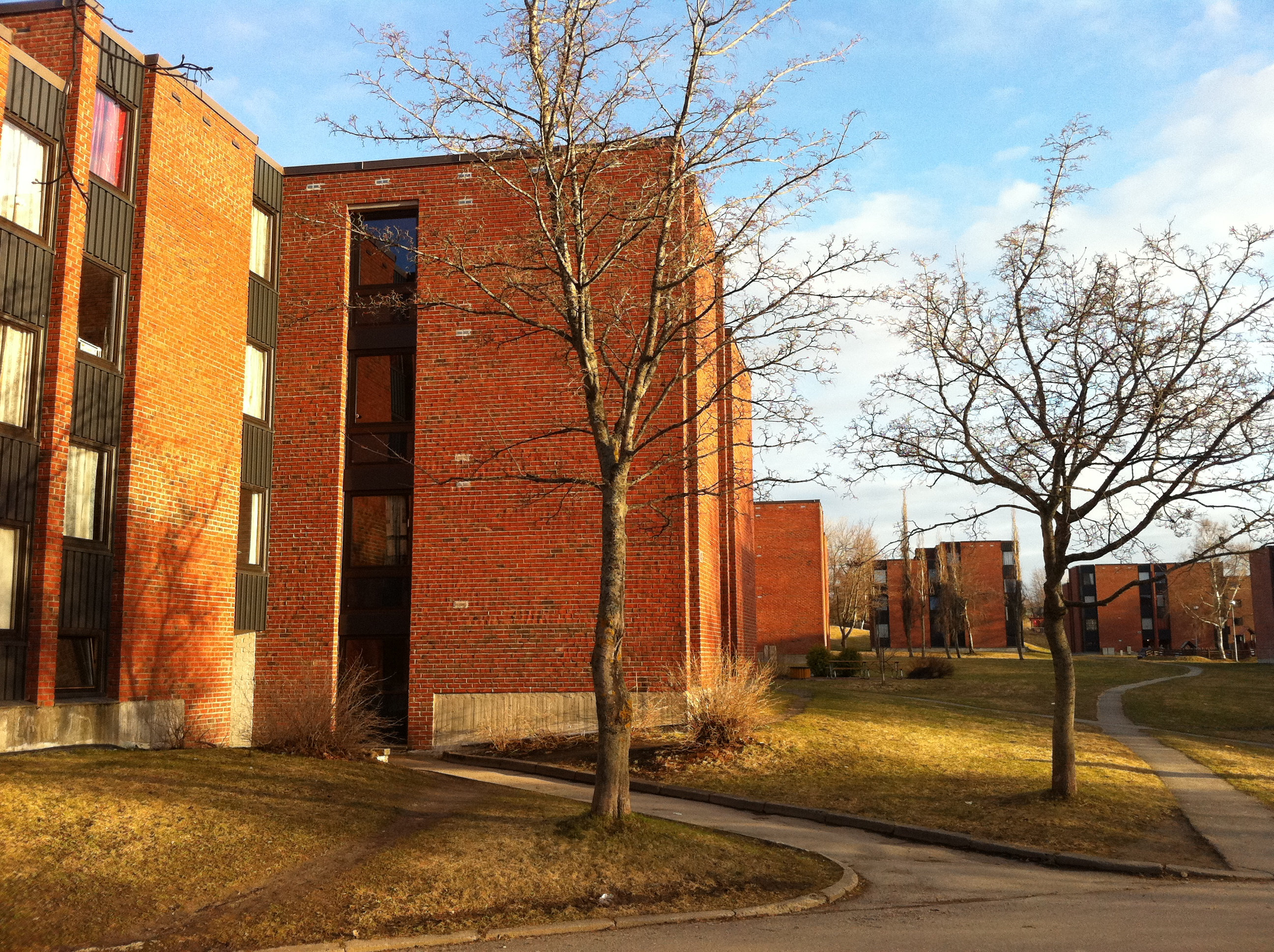 Moholt studentby (Moholt student housing area) in Trondheim, Norway. Architect Herman Krag. The first buildings were finished in 1964.